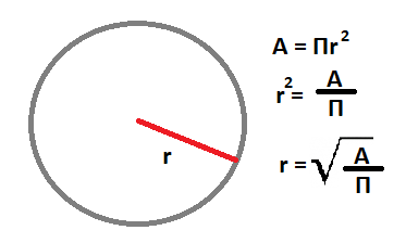 Radius of a circle with Area A